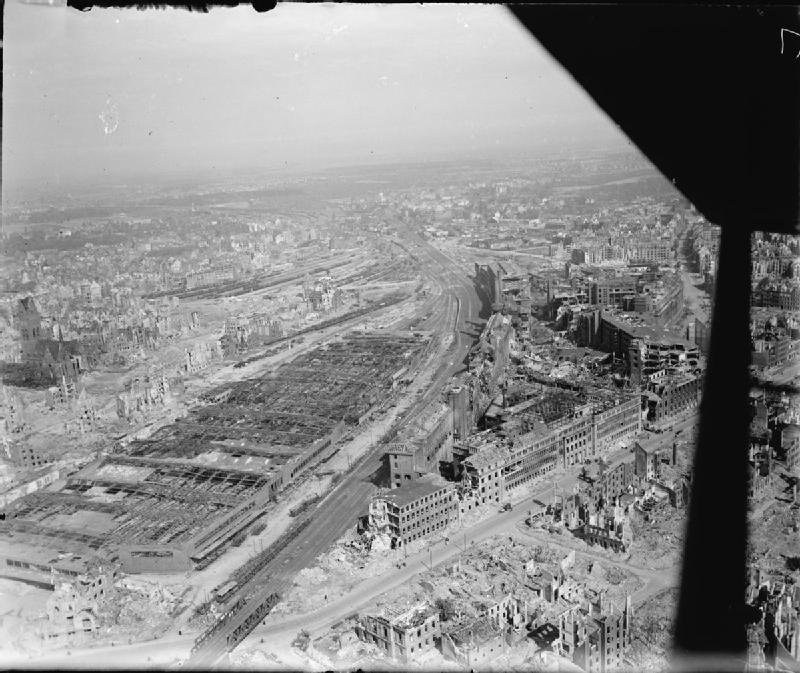 Royal Air Force Bomber Command, 1942-1945. Oblique aerial view of the devastated railway sheds, marshalling yards and surrounding buildings at Hannover, Germany, following repeated attacks by Bomber Command aircraft.